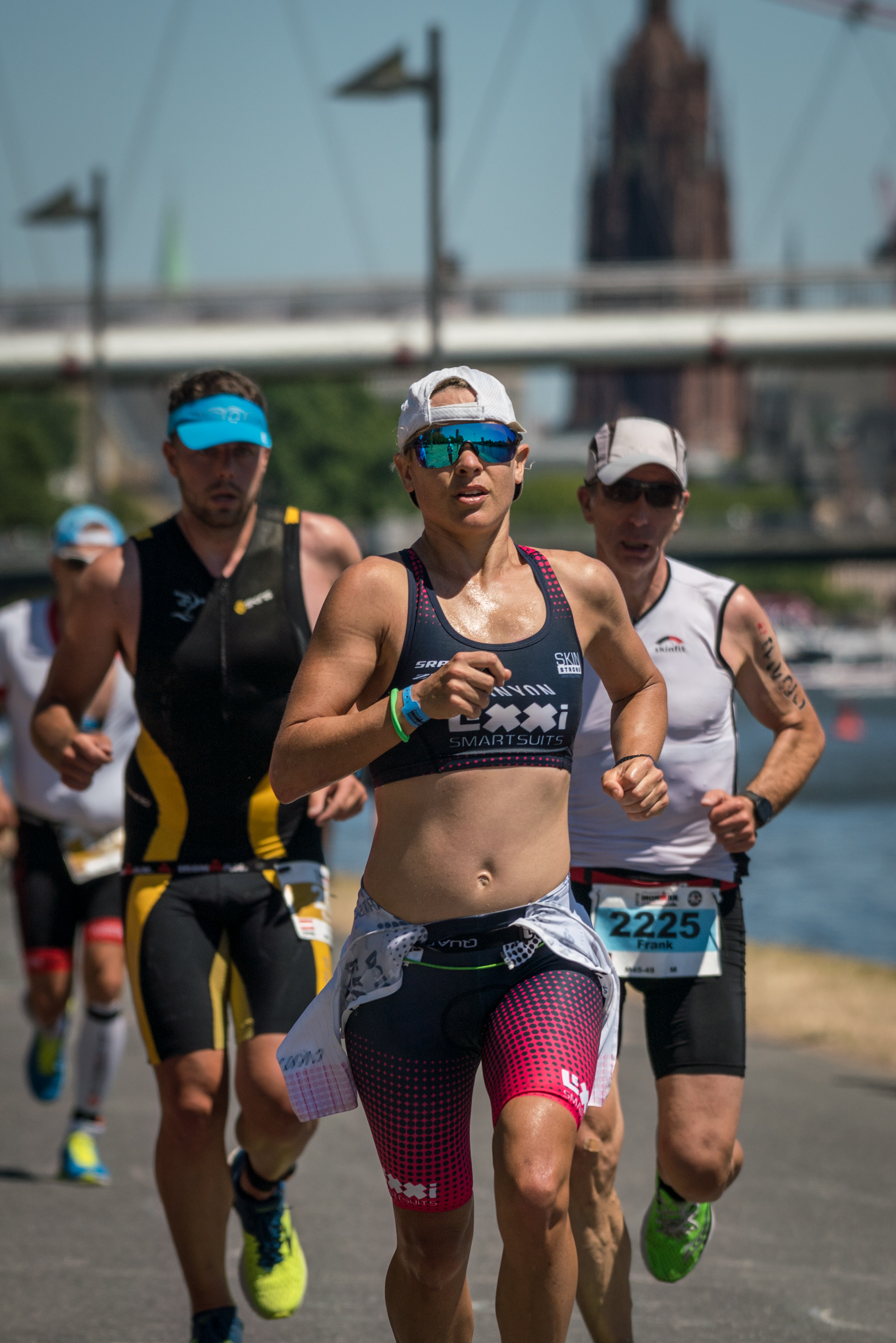 Third female Sarah Crowley at the 2018 Ironman European Championship in Frankfurt am Main (Germany).